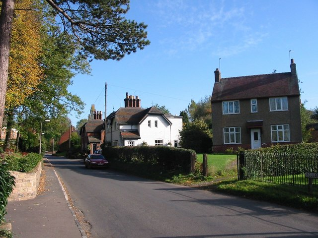 Heading into Colton from the Church